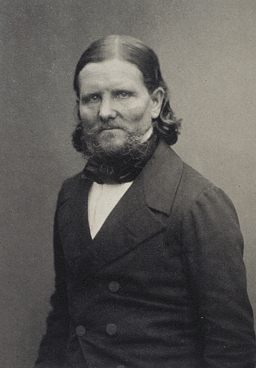 Photograph (Albumen Print) of William Horsell, by Maull & Polyblank, London, c.1857